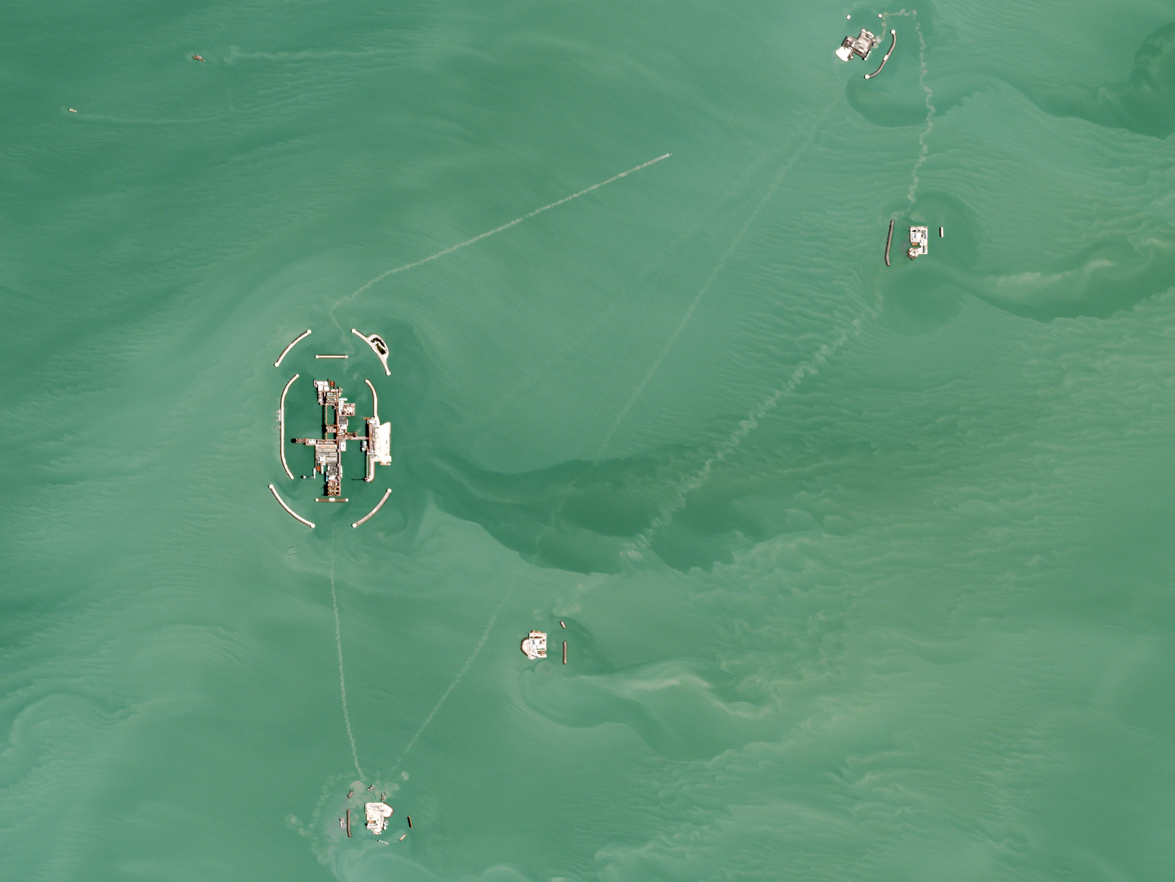 Kashagan Oil Field, Kazakhstan July 14, 2016 This enormous facility in the Caspian Sea was built to draw oil and gas from the Kashagan Oil Field—one of the largest contemporary oil discoveries. The facility, plagued by logistical delays and malfunctioning equipment, has yet to begin normal operations.